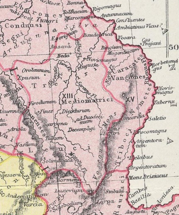 A section of the map "GALLIA," from The Atlas of Ancient and Classical Geography showing the late Roman provinces of Germania Prima and Belgica Prima. Interlingua: Un section del mappa "GALLIA," ex The Atlas of Ancient and Classical Geography monstrante le provincias roman tardive de Germania Prime e Belgica Prime.